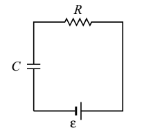 Circuito RC